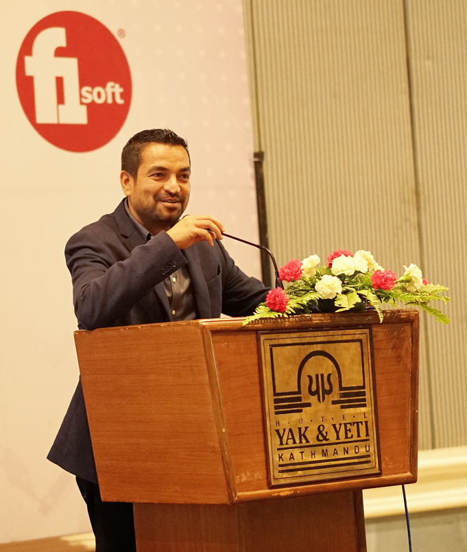 Picture Taken at Hotel yak & Yeti